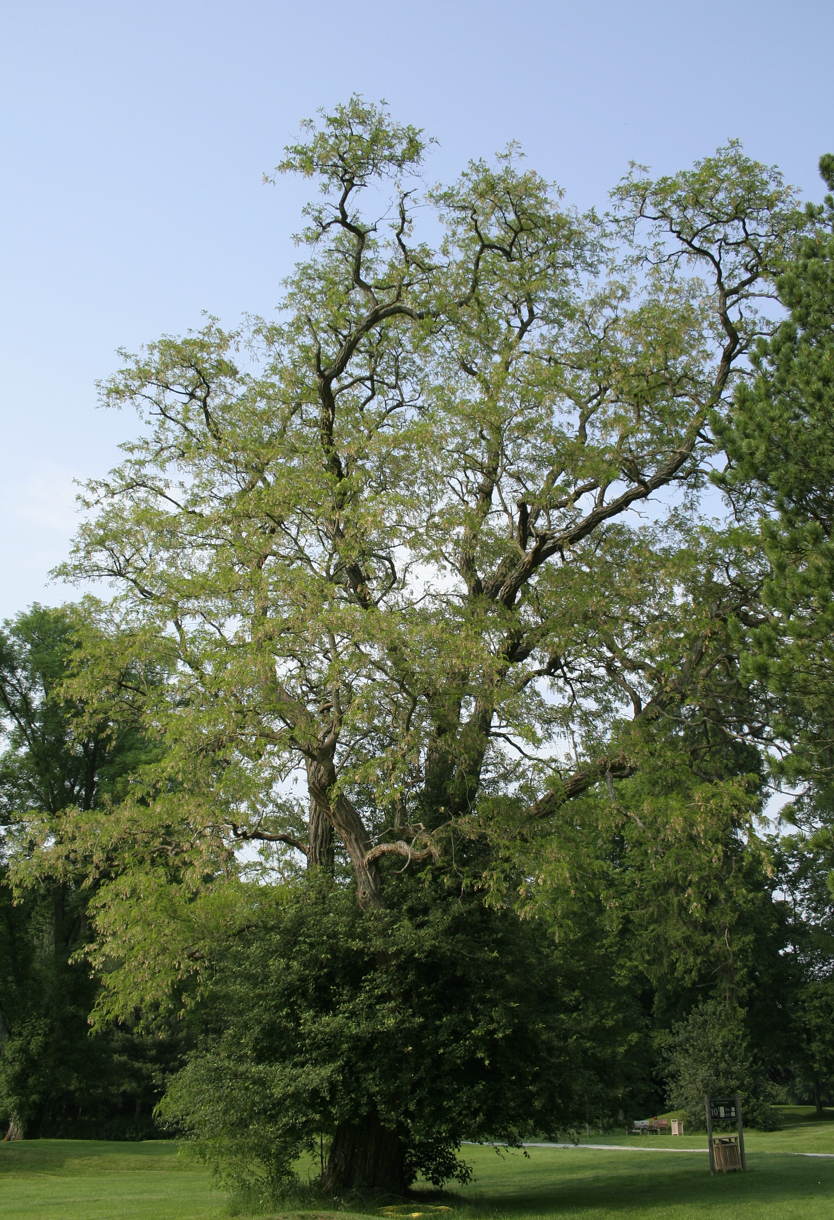 Black locust